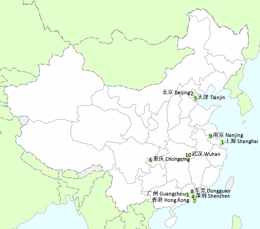 File:China_blank_map-2.png